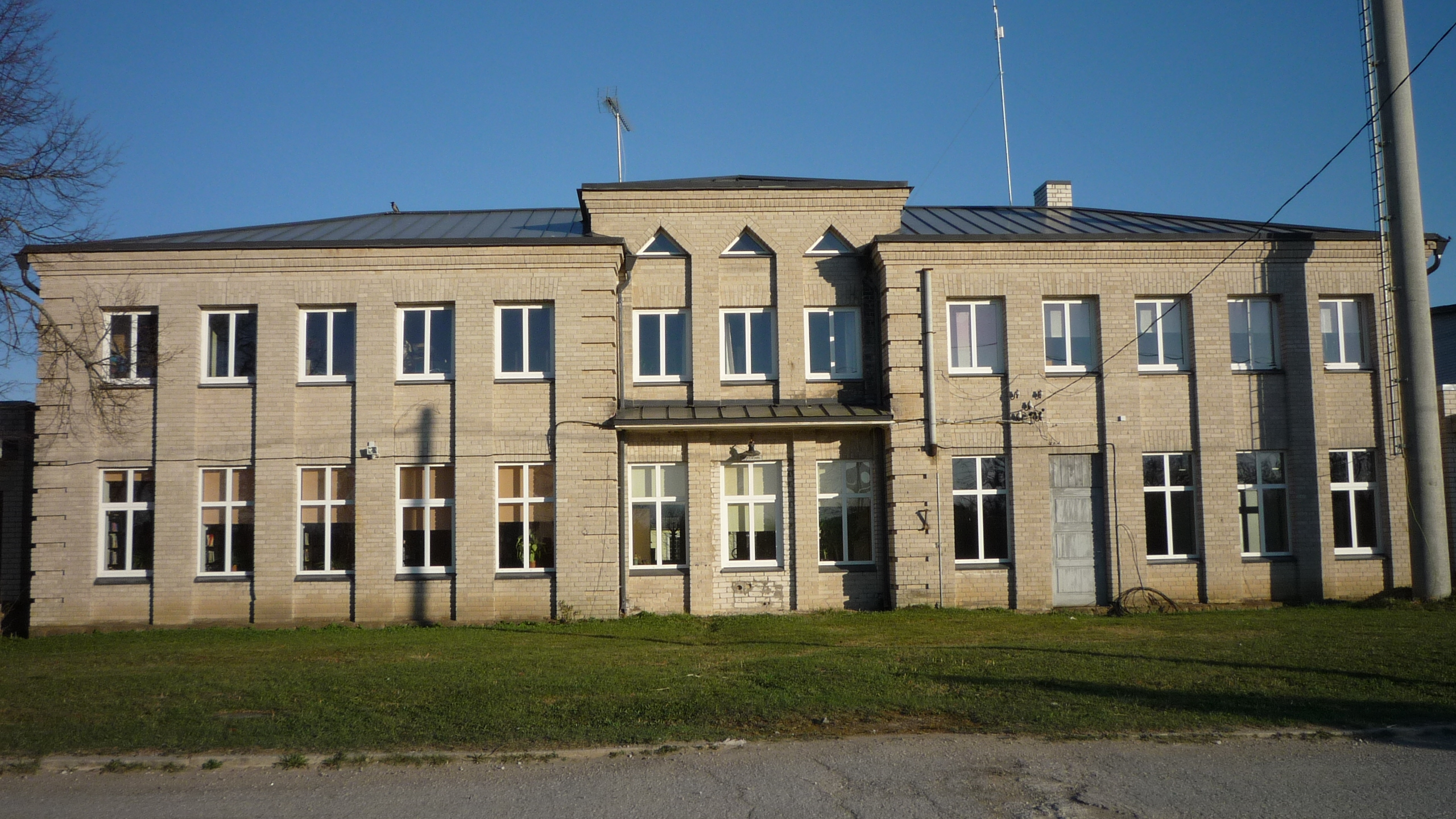 Vigala (former) railway station. View from former railway embankment. Rapla county, Estonia.